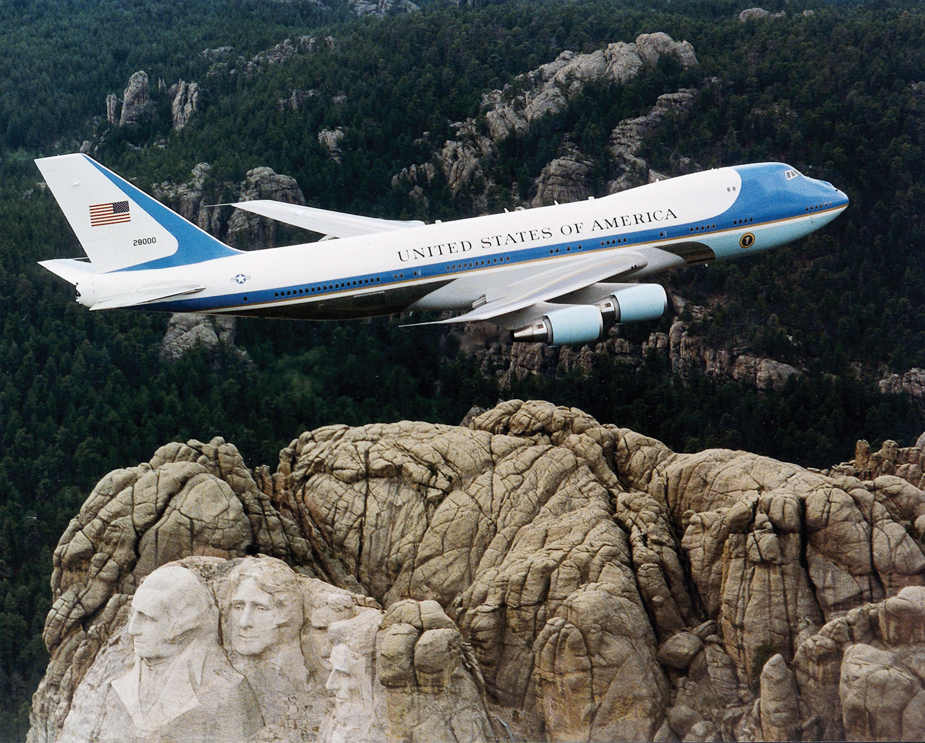 Air Force One, the typical air transport of the President of the United States of America, flying over Mount Rushmore.